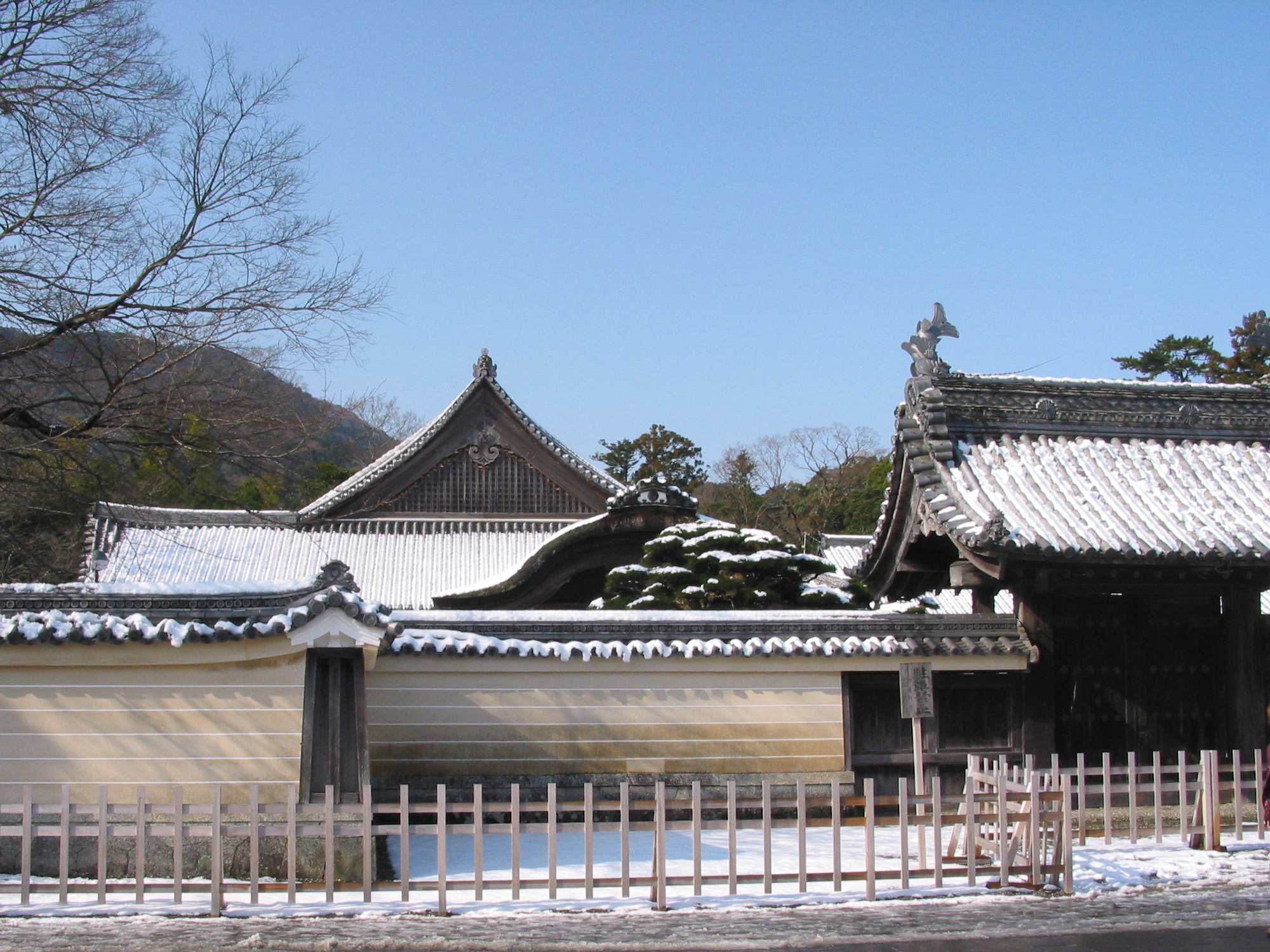 Jingu (Ise Shrine) Saisyu-Syokusya (The site of Keikoin Temple), built in the early Edo period, had Japanese important cultural property status. Place:Uji-Urata Ise City Mie Pref. Japan.